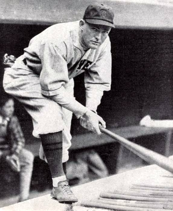 Cropped image from Time magazine cover, July 9, 1928